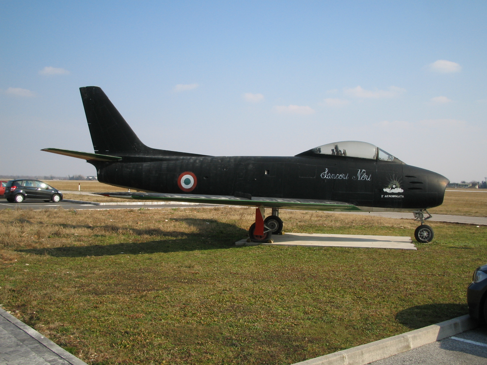 F-86 Sabre of "Lancieri Neri" (Italian Air Force)